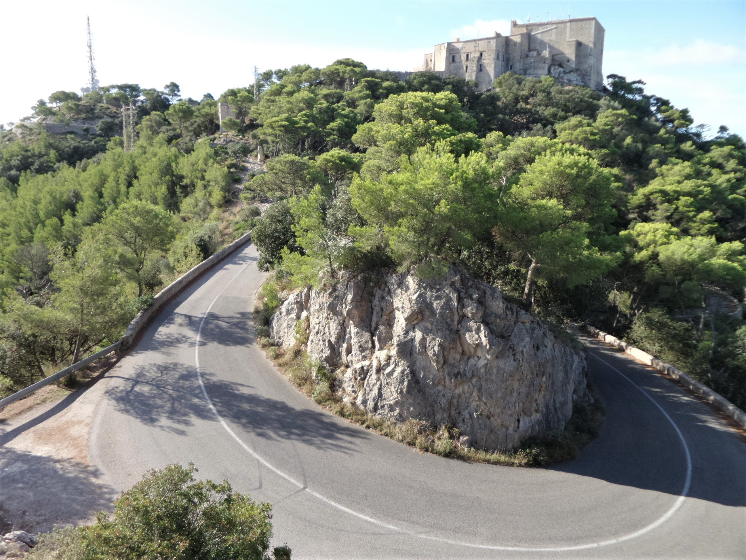 Spain (E) - Balearic Islands (IB) - Mallorca: Road "Ma-4011", Last U-Turn and Santueri de Sant Salvador